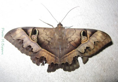 Cyligramma fluctuosa (Drury, 1773) moth Picture taken in Réunion